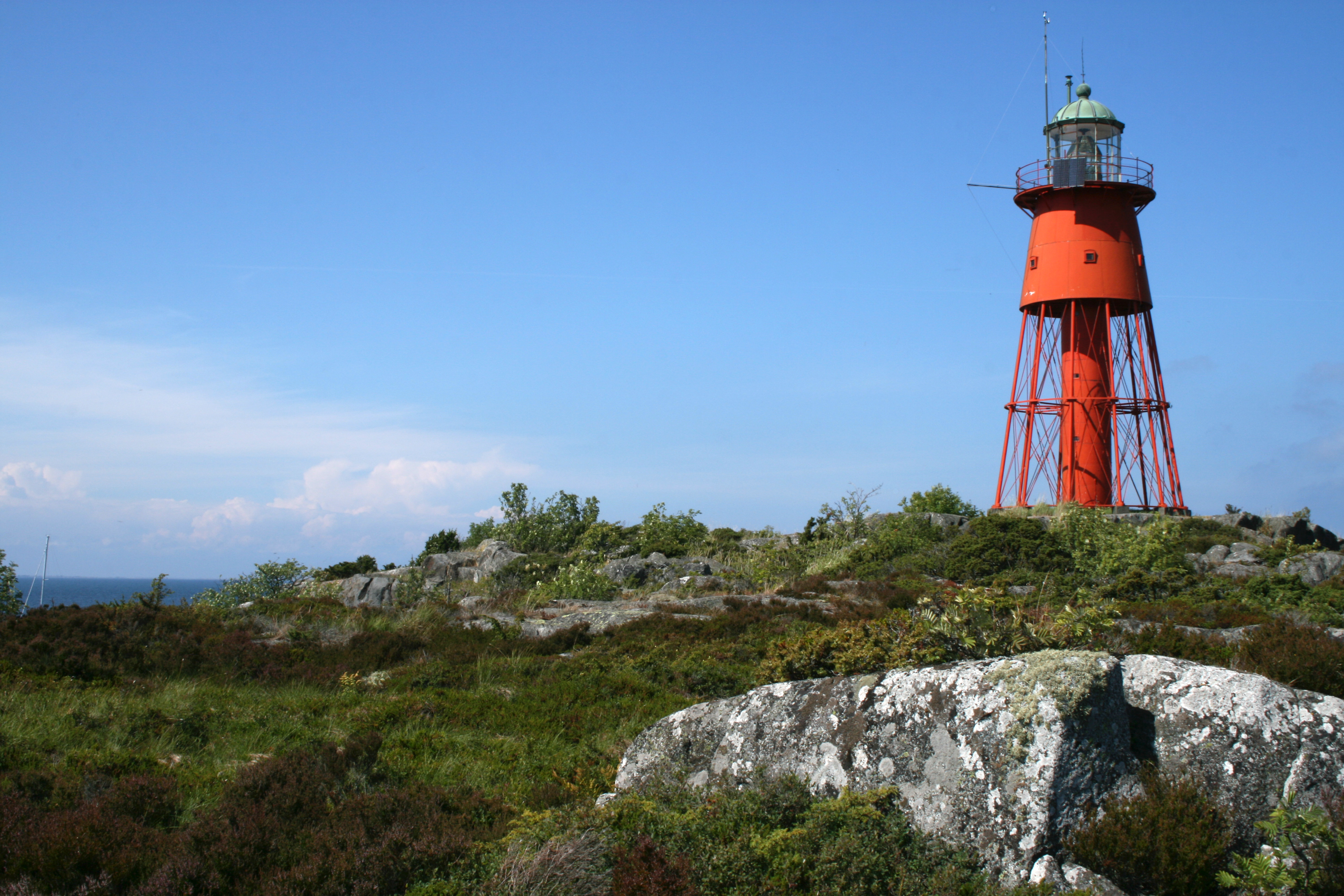 The lighthouse on the island of Svenska Högarna in the Stockholm archipelago.